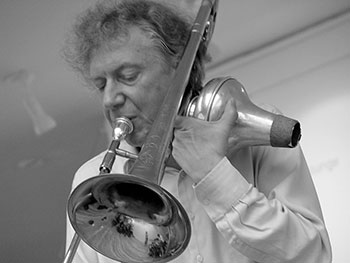 Johannes Bauer performing in Aarhus Denmark